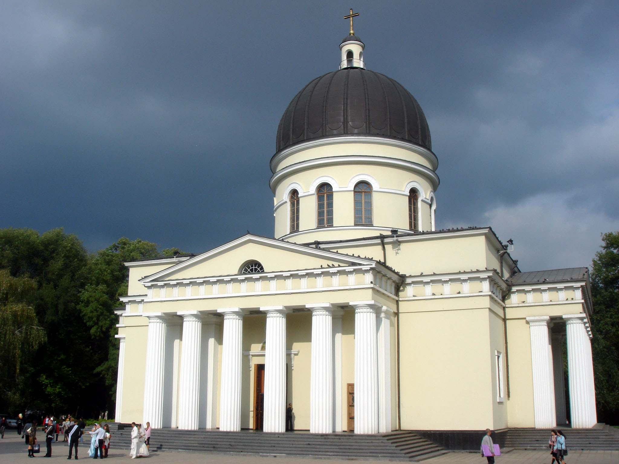 Orthodox Cathedral of the Nativity, Chişinău, Moldova